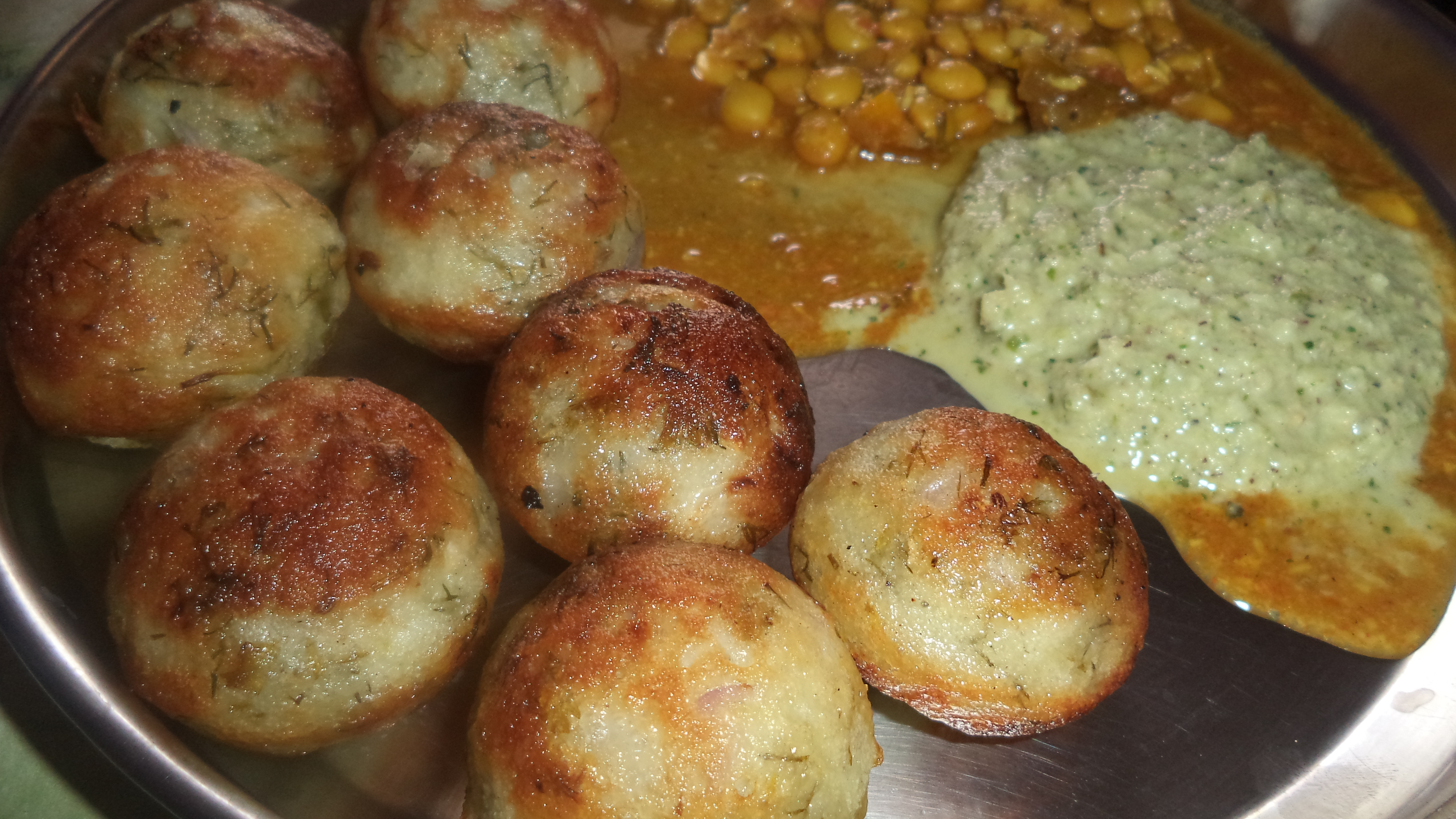 Paddus with Coconut chutney and Hyacinth bean Palya